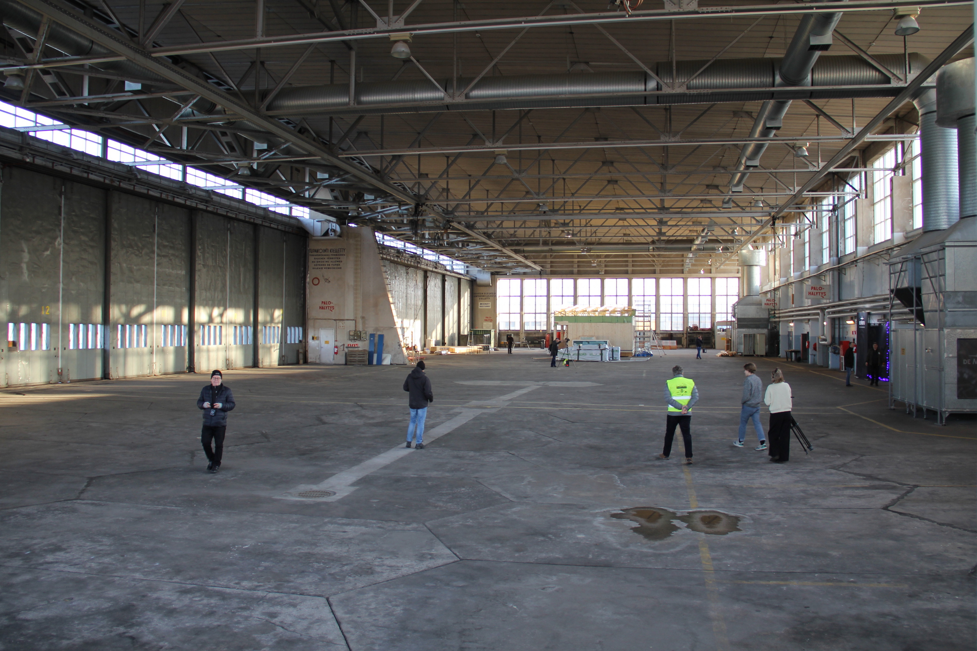 Helsinki-Malmi airport hangar, Malmi, Helsinki, Finland. - Photo take from northwest.